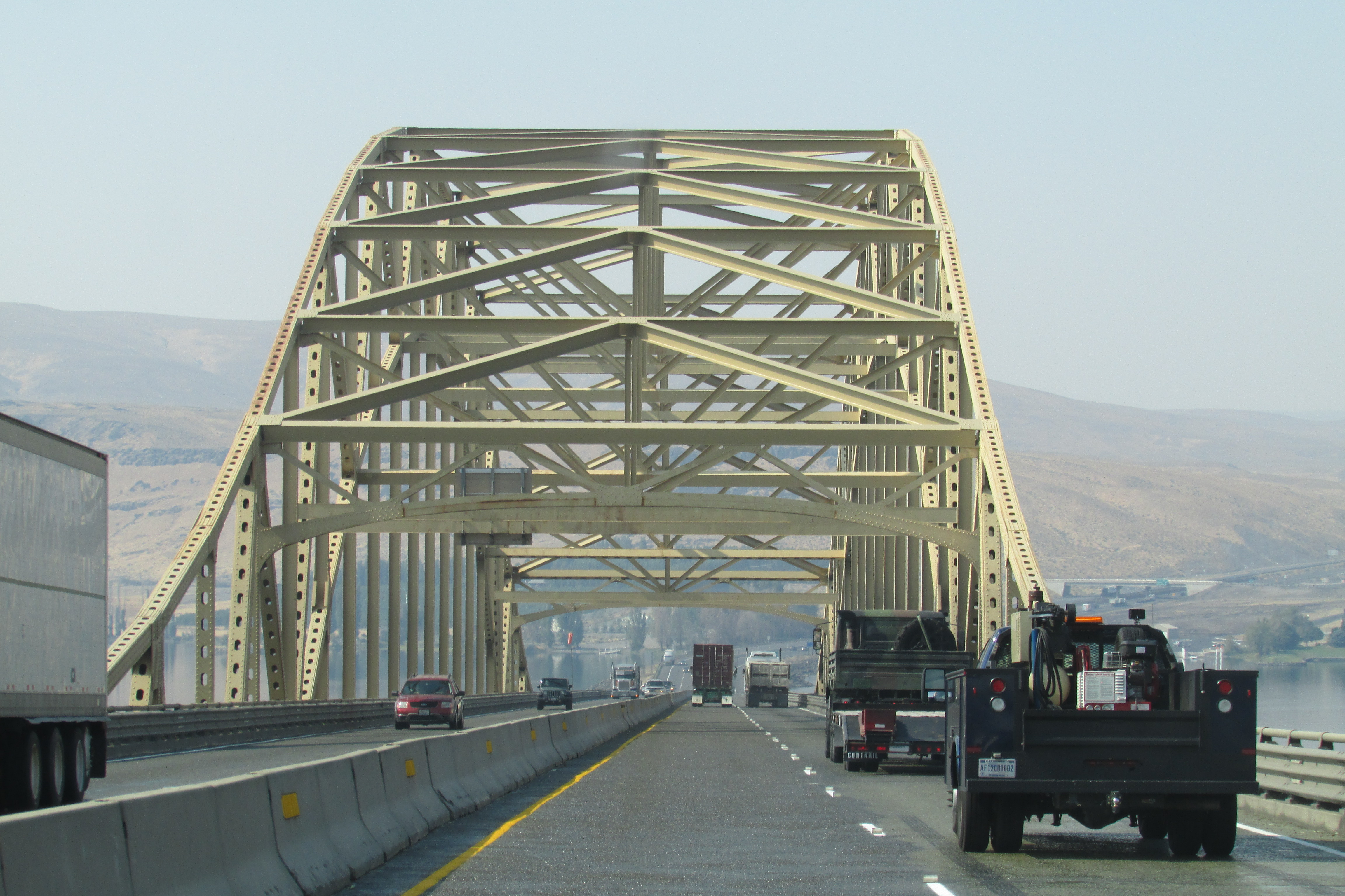 Vantage Bridge (I-90) over the Columbia River in central Washington.